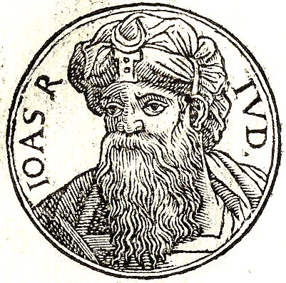 Joas was the king of the ancient Kingdom of Judah, and sole surviving son of Ahaziah.